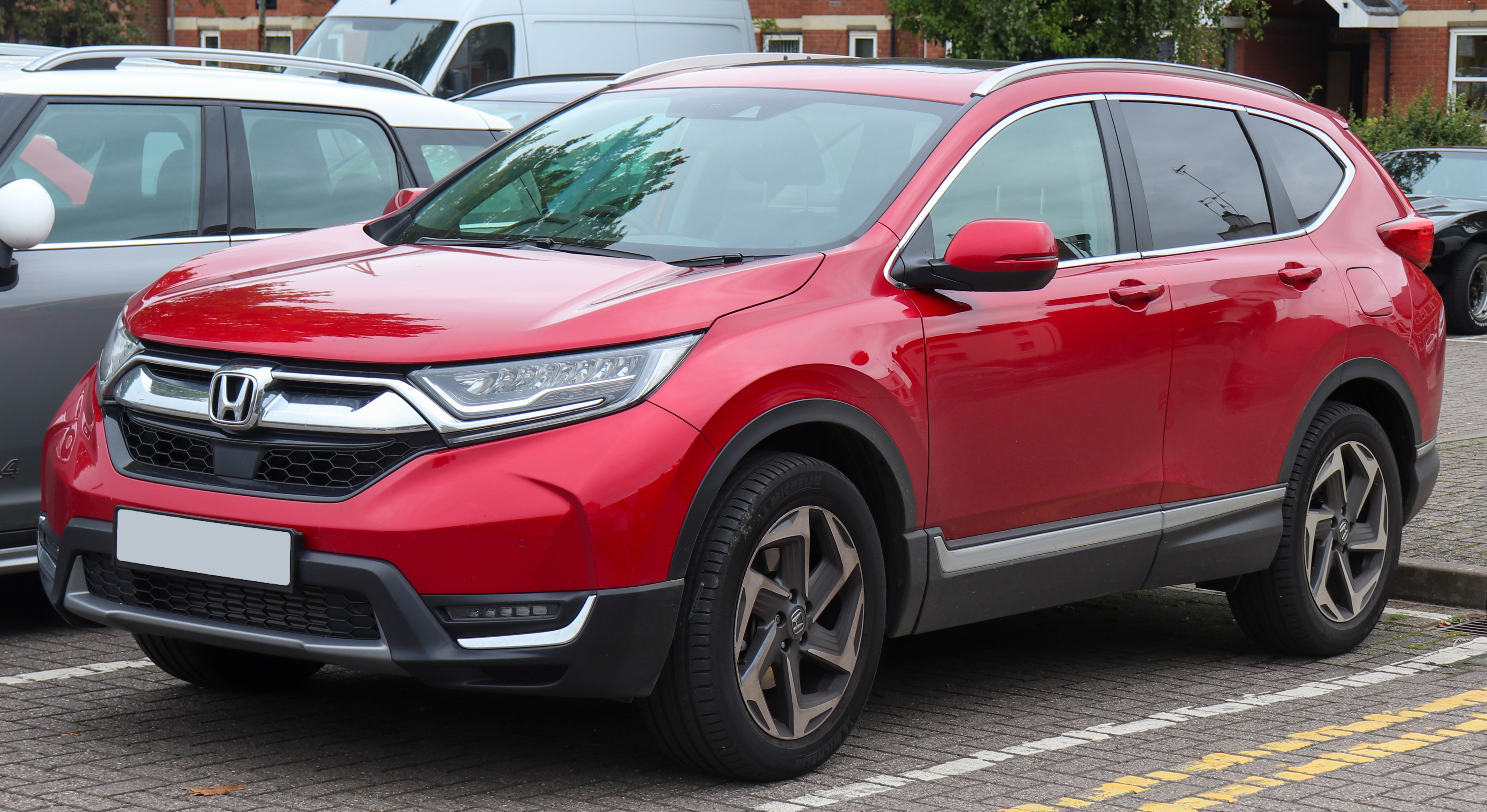 2019 Honda CR-V EX i-VTEC 1.5 Taken in Leamington Spa